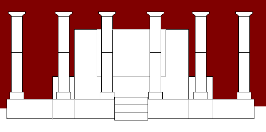 Diagram of the Thracian tumulus Horizont, Bulgaria - front view.